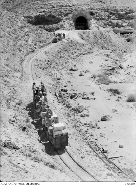 Senussi Cave narrow gauge railway near Tobruk, Lybia